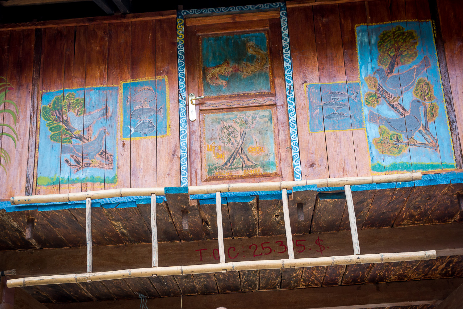 Holy houses in Aldeia Macausa, Irabin de Baixo, East Timor